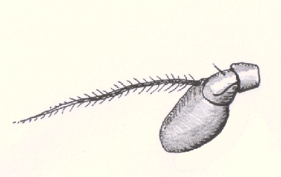 Antenna of a fly, Brachycera, Diptera. A drawing by Halvard from Norway.